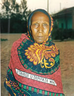 Provided by Grandson - Bendera from Singida. Currently living in Canada